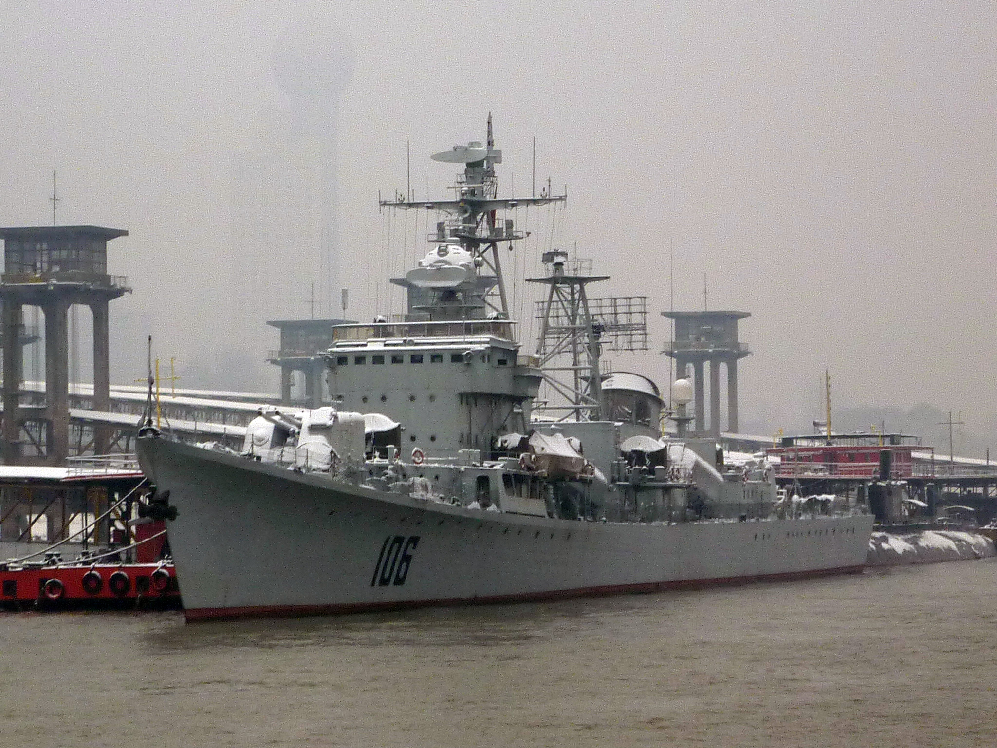 Even in winter, plenty of boats can be seen by the Hankou waterfront in Wuhan. Note a military-looking one, no. 106